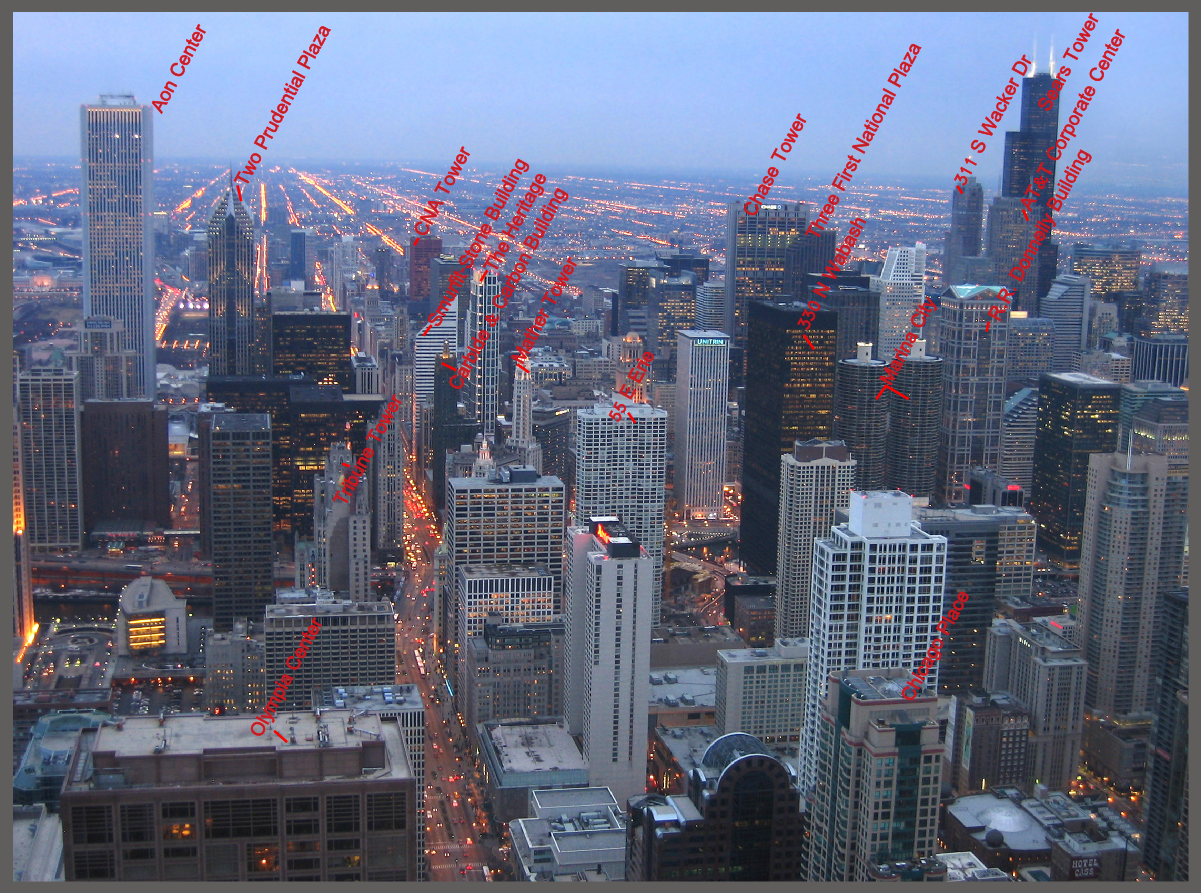 Chicago Skyline. South view from the John Hancock Center Observatory, Chicago.